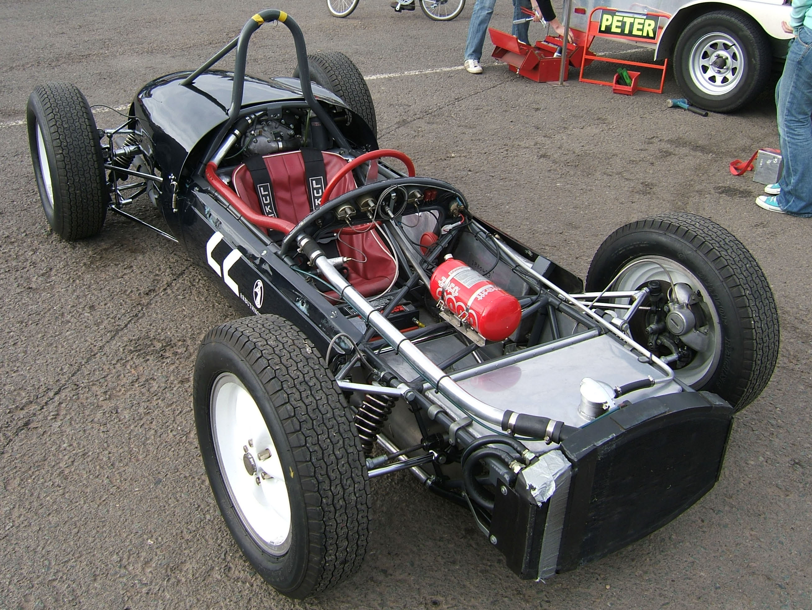 A Lotus 18/21 Formula One car with its forward bodywork removed in the paddock of the VSCC SeeRed race meeting, Donington Park, September 2007. Th position of the radiator and associated pipework is clearly shown, as are details of the spaceframe chassis construction.